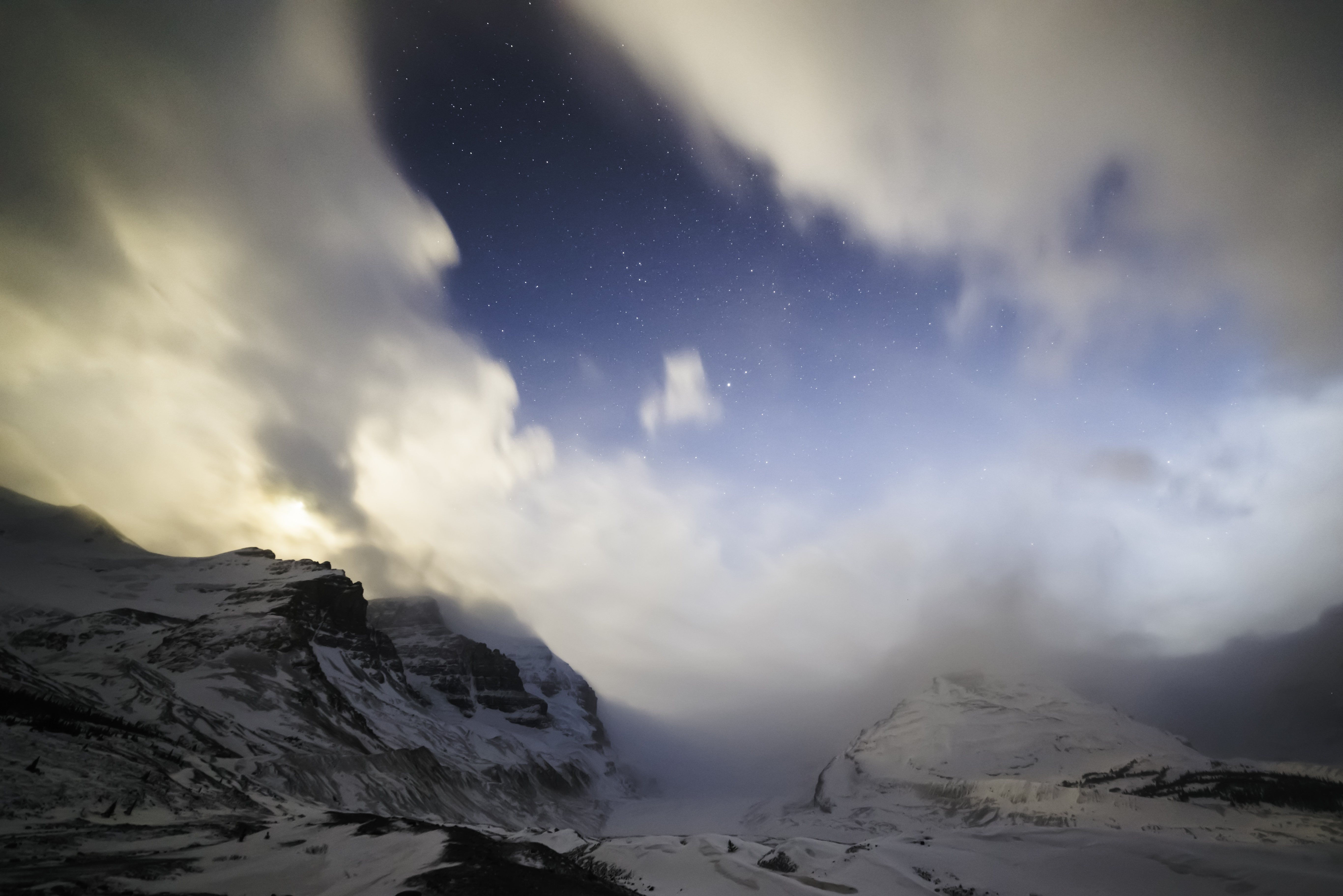 Mt. Athabasca and the Athabasca Glacier under moonlight, stars and clouds at night. This photo was taken in a protected area in Canada, Wikidata item Jasper National Park (Q503429)